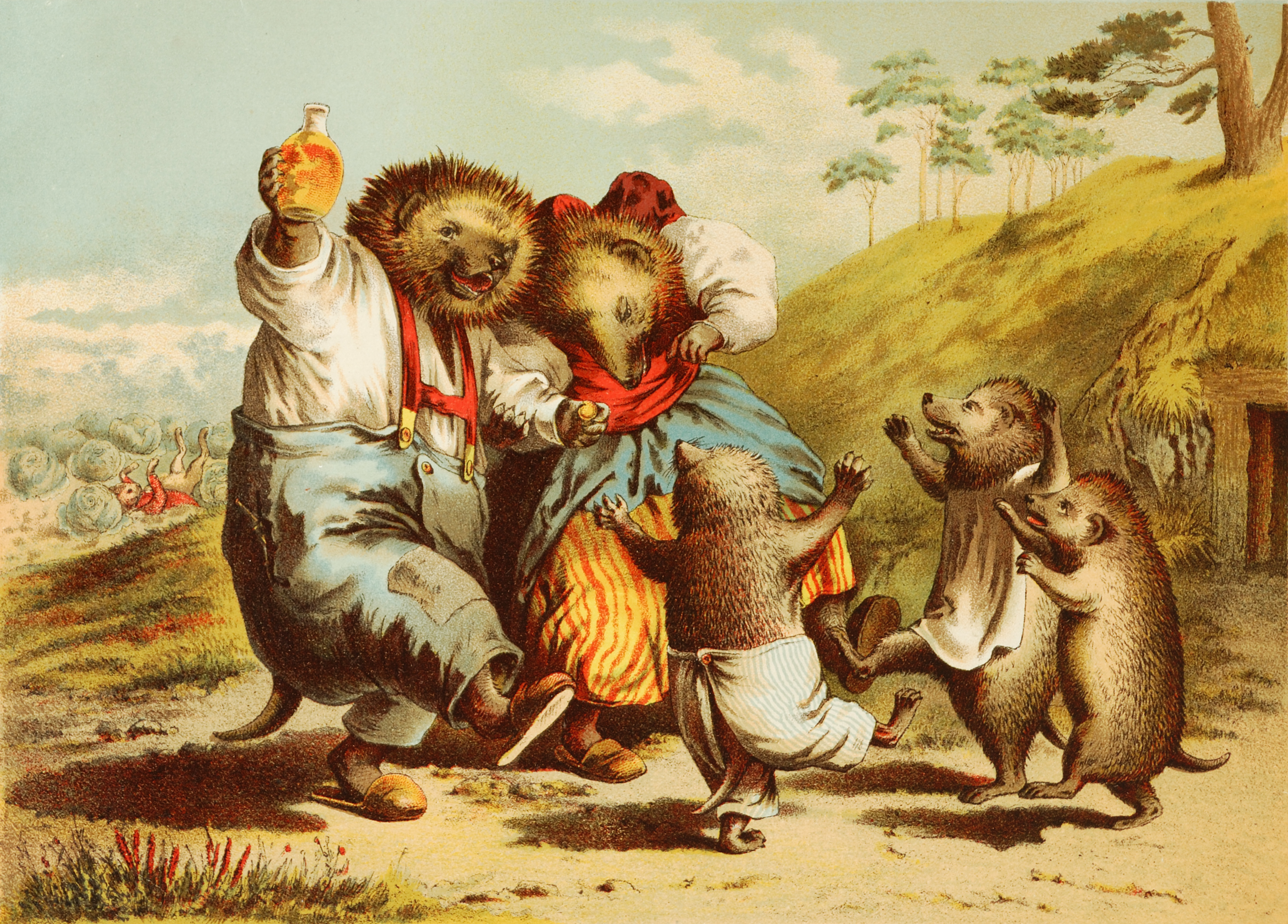 German fairy tale Der Hase und der Igel, illustration by Heinrich Leutemann or Carl Offterdinger